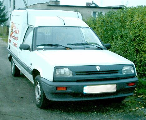 Front view of a Renault Rapid (also known as Renault Express and Renault Extra)